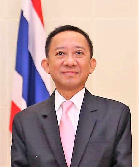 Danai Karnpoj, ambassador of Thailand to East Timor